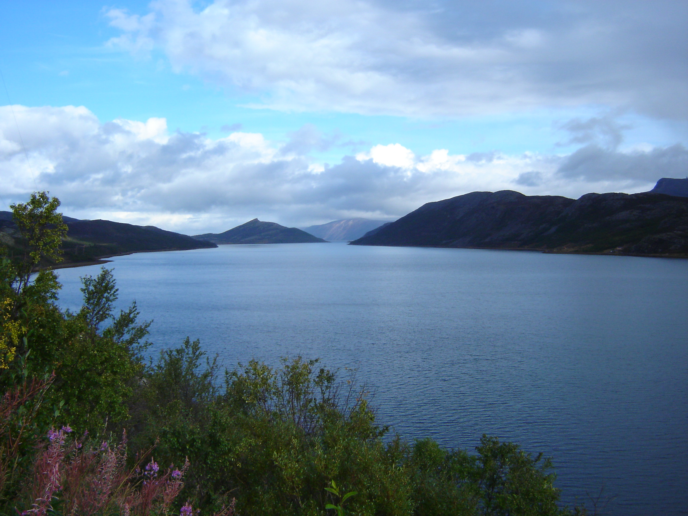 Smalfjorden, Tana municipality, Finnmark, Norway